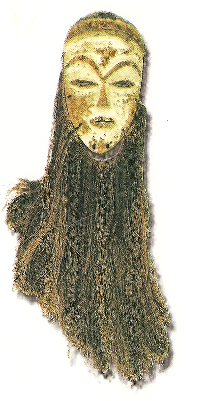 Bodi gabonese traditionnal mask from the Pove ethny